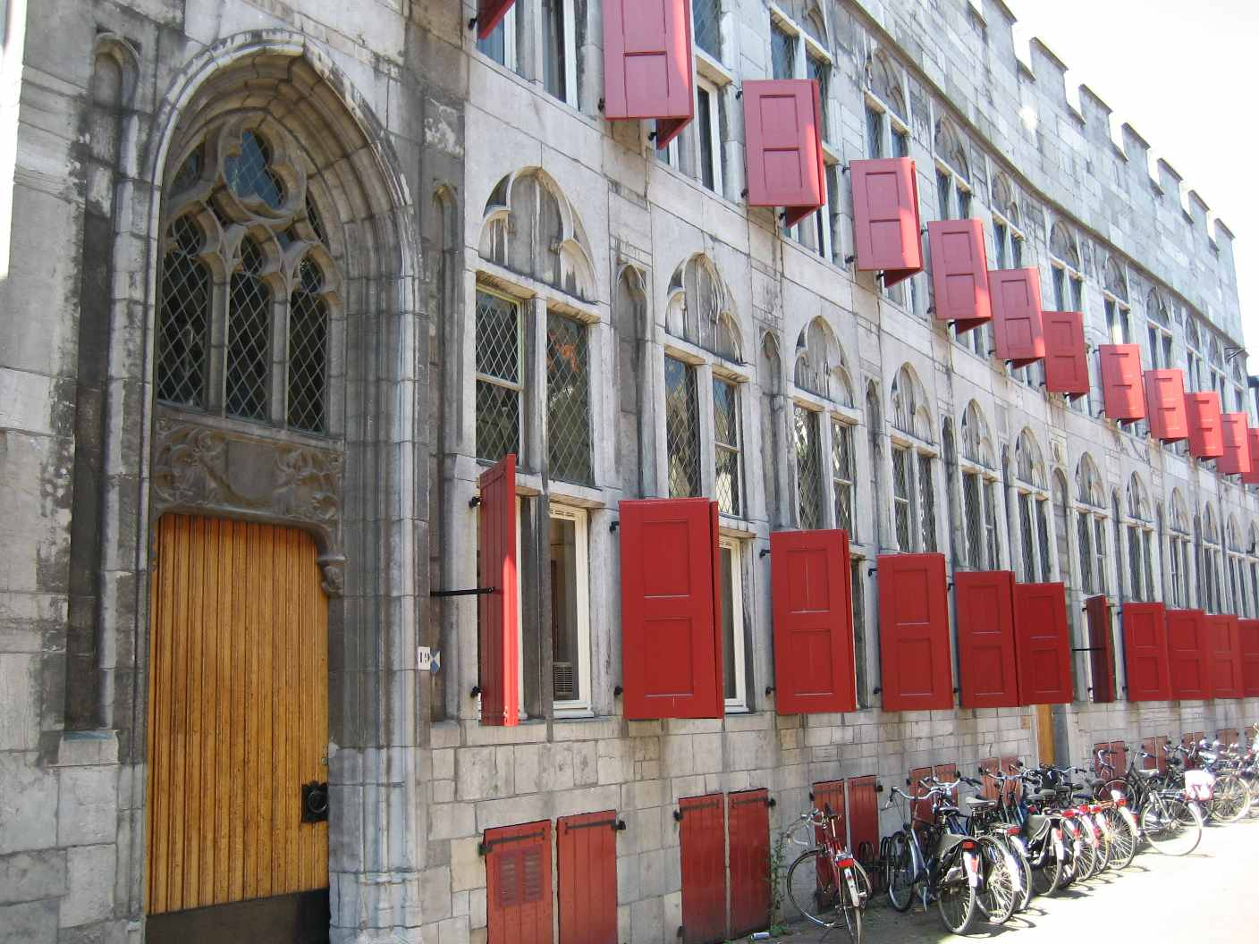 Facade of Zoudenbalch Palace in Donkerstraat in Utrecht, the Netherlands.